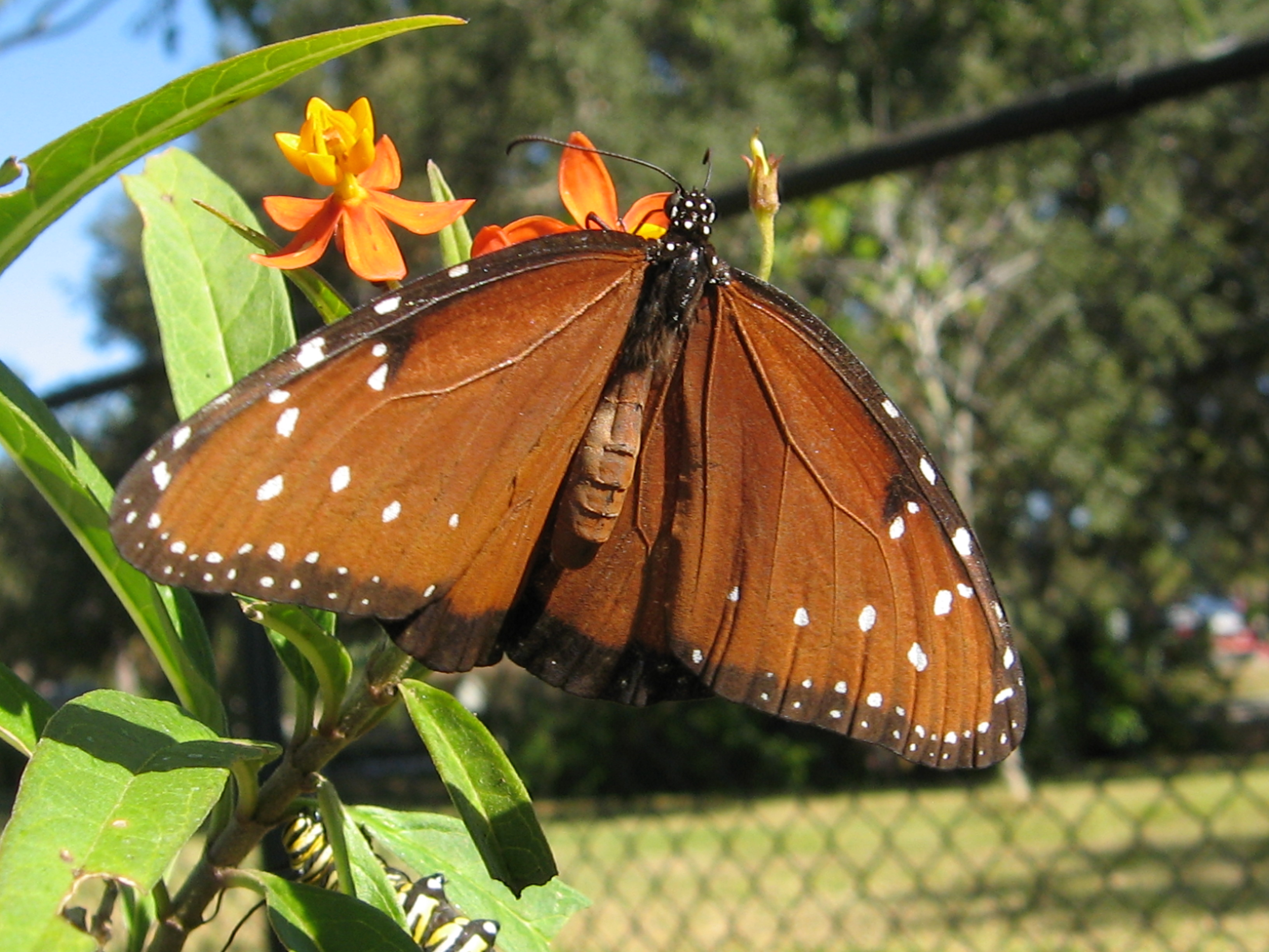 A Queen butterfly (Danaus gilippus) at a Milkweed plant. Down is also a caterpillar, probably of some kind of species of the Danaus genus. Picture taken at Manatee Park in Ft Myers.